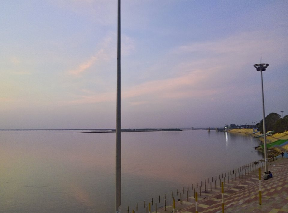 Godavari ghats in Rajamahendra Varam, East Godavari, Andhra Pradesh, India